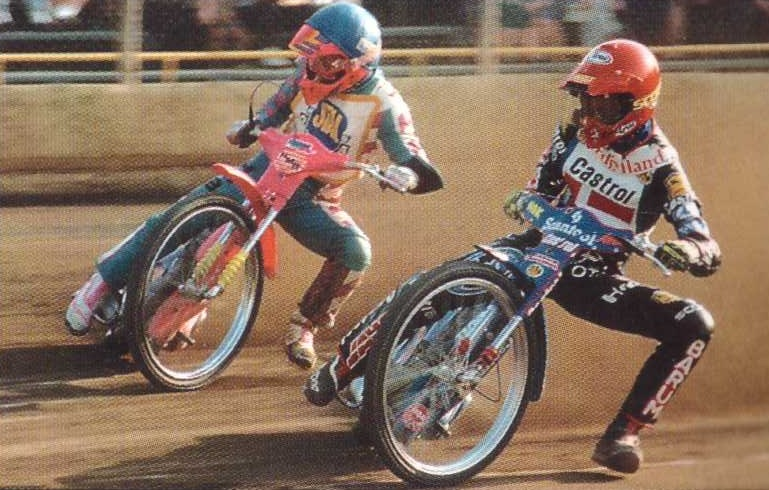 Piotr Swist (left) and Hans Nielsen.